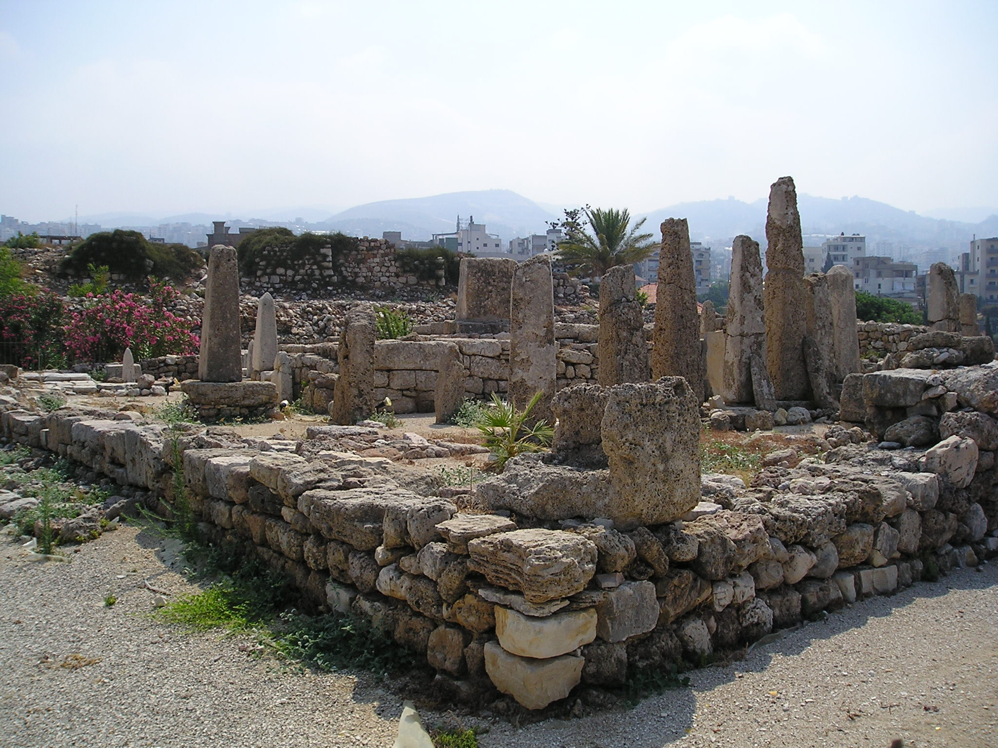 Byblos, Lebanon - Obelisk Temple